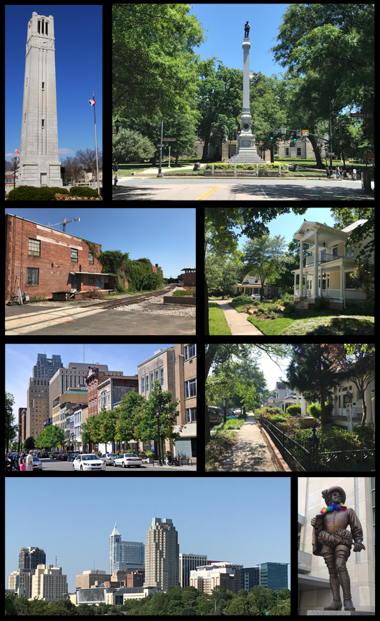 Collage of photos of Raleigh. Clockwise from top left: NCSU bell tower, Confederate memorial in front of the North Carolina State Capitol, houses in Historic Boylan Heights neighborhood, houses in Historic Oakwood neighborhood, statue of Sir Walter Raleigh, skyline of downtown, Fayetteville Street, warehouse district